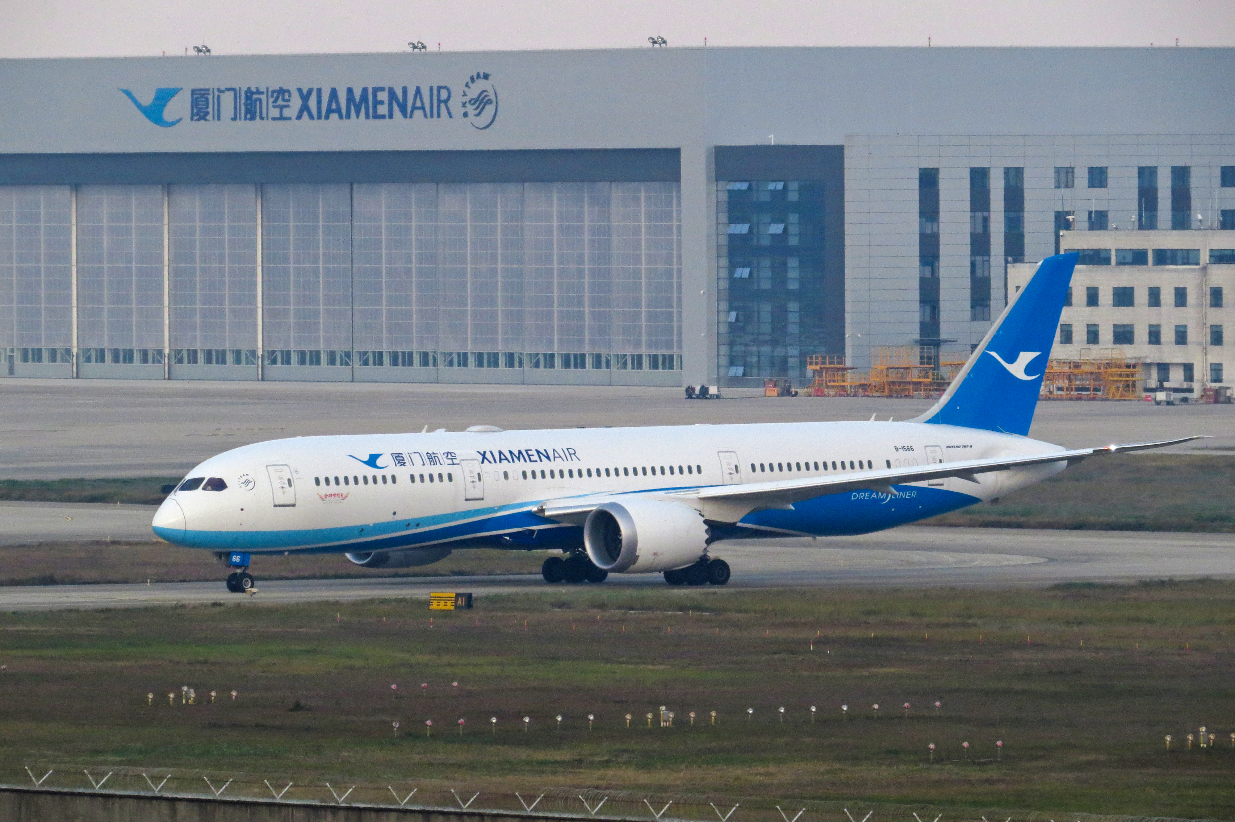 Xiamen Air 8171 to Beijing. This B787-9, named "BRICS Dream", is the first aircraft to equip reverse herringbone business class seat in Xiamen Airlines' fleet.